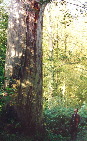 dead big oak of Bonsecours (or Bonsecours) forest (north of France), with adult man (for scale)